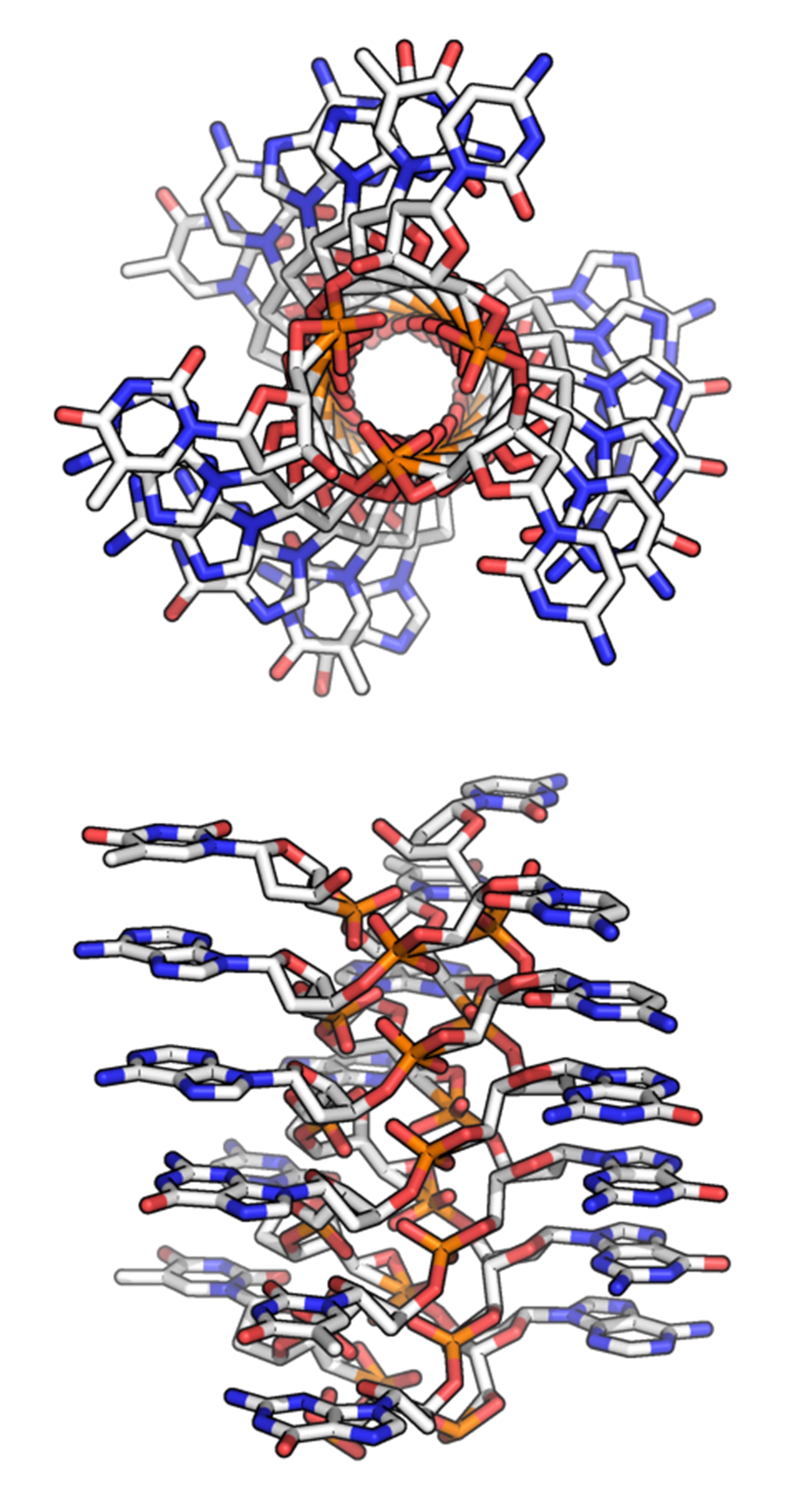 The Pauling triplex was a speculative model of DNA proposed by Linus Pauling in 1953 before the duplex structure of DNA was solved in 1954 [1][2]. PDB format file from [3].